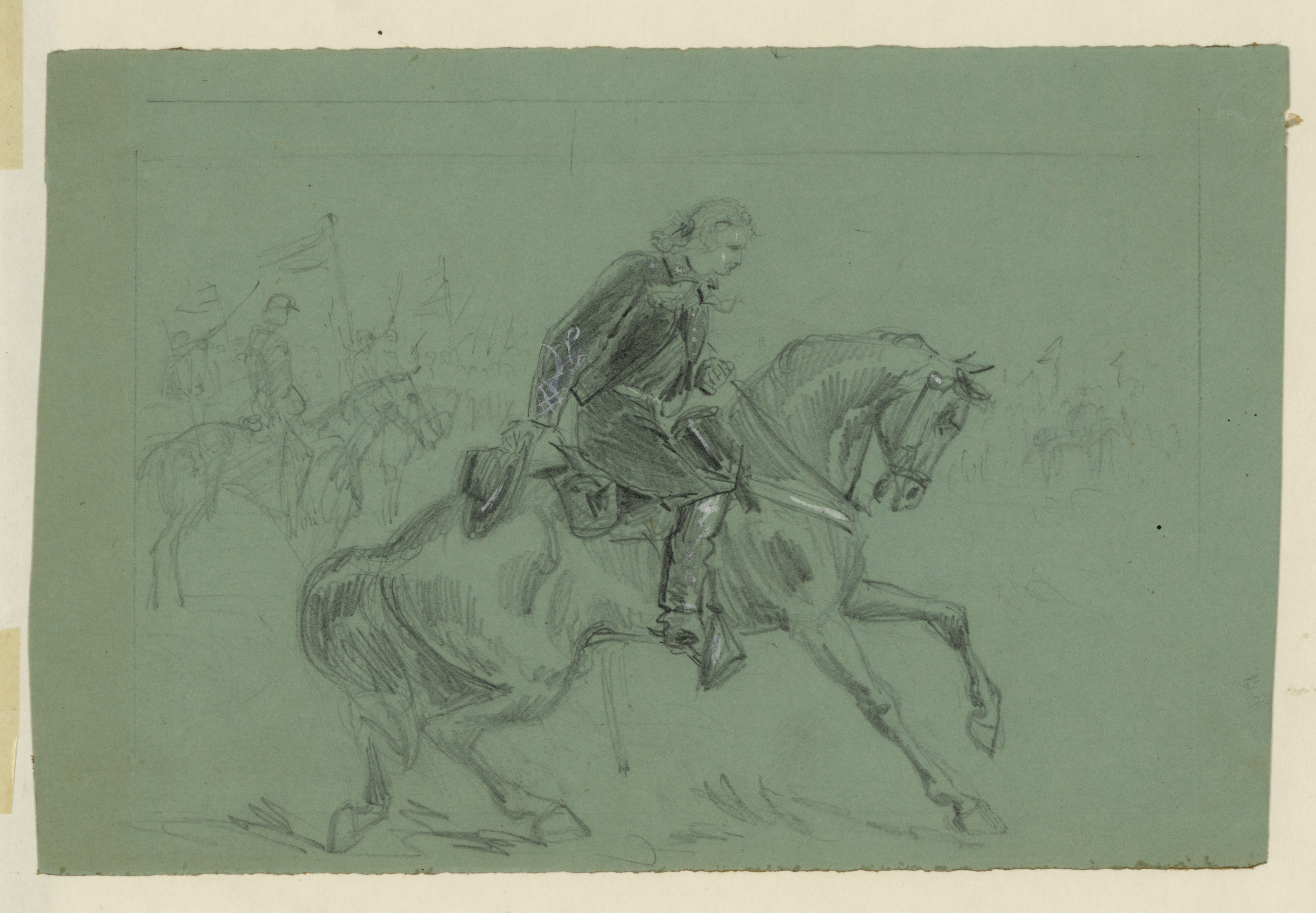 Title: General Custer saluting Confederate General Ramseur at the Woodstock races, Oct. 9, 1864 Abstract/medium: 1 drawing on blue-green paper : pencil and Chinese white ; 13.6 x 20.6 cm. (sheet)